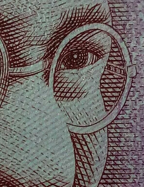 This is a special security feature in Rs 2000 Indian Currency Note where RBI (Reserve Bank of India) is written in Gandhiji's frame. This cannot be seen with naked eyes.